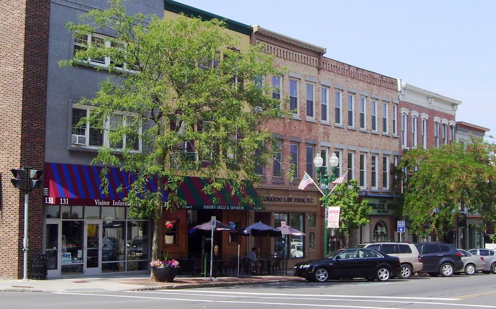 The north side of Genesee Street in downtown Auburn, New York looking east from North Street.